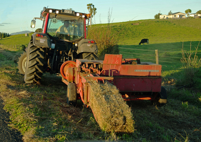 Tractor with a Massey Ferguson baler, New Zealand. – Baling Hay at Sunset. The long grass along the roadside of the farm was being baled for my daughter and grandaughter's horses. Was great to see an old Baler still being used with a brand new modern tractor.